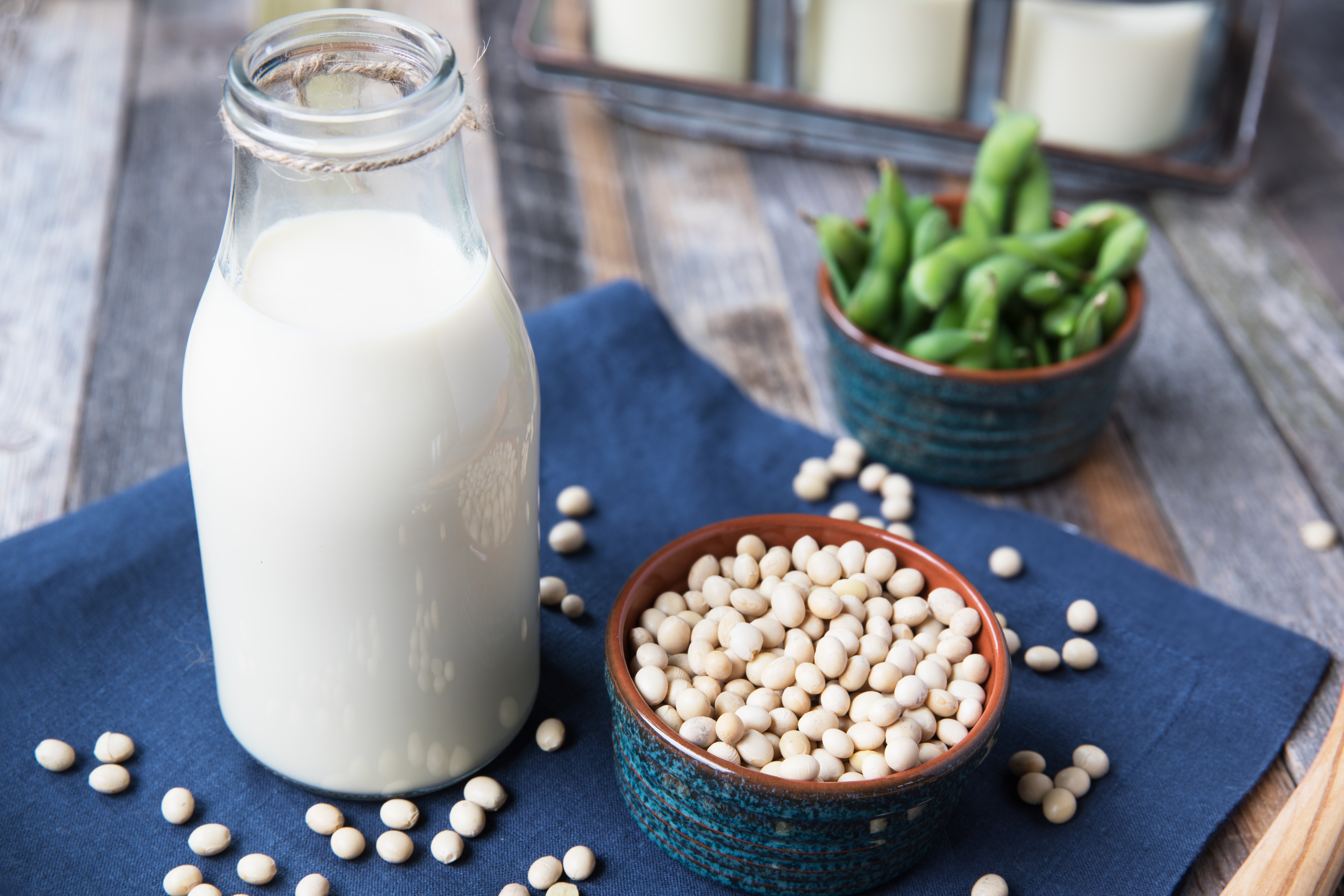 This photo is available under Creative Commons. If you use this image, please give credit to with a clickable link.